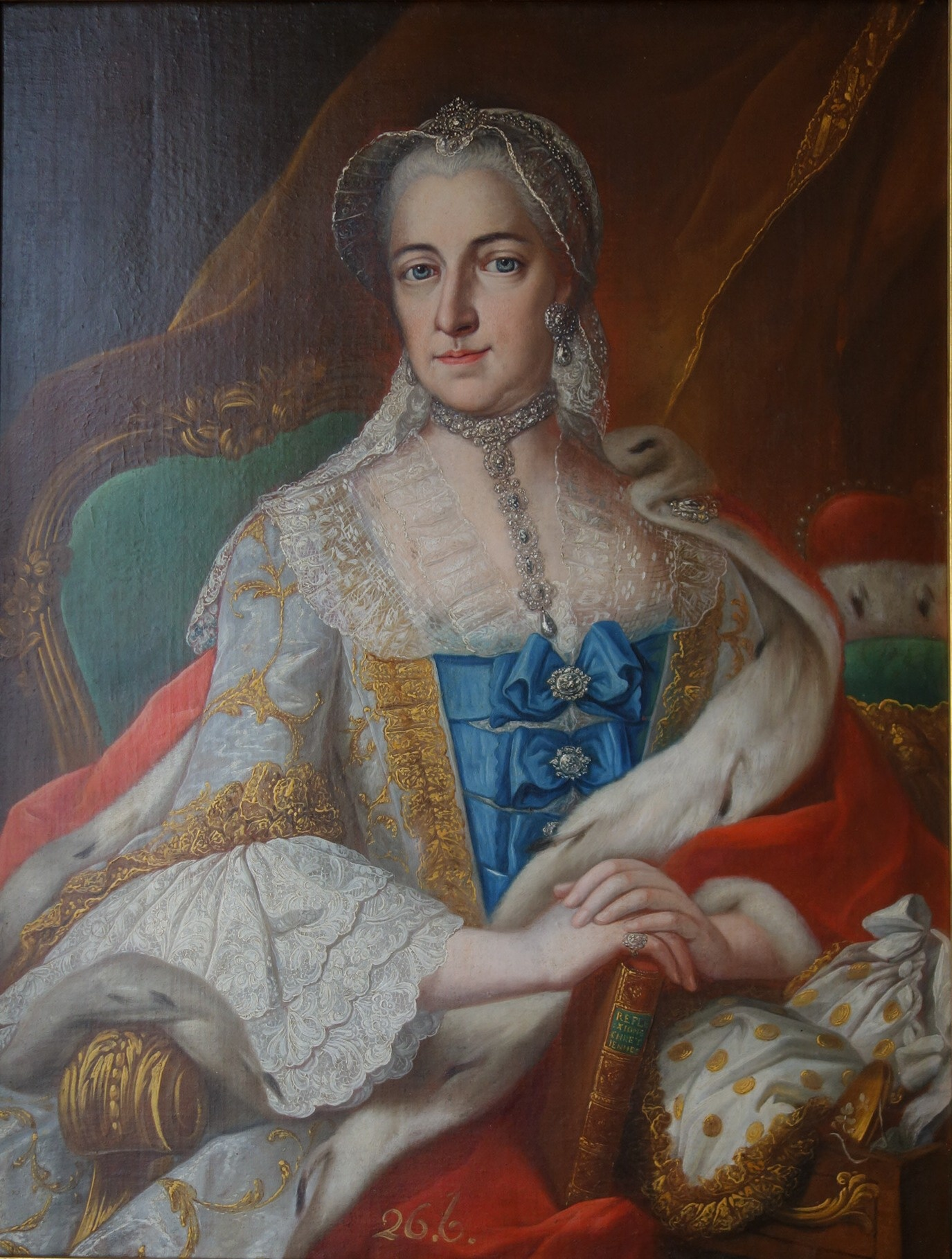 Marie Victoire d'Arenberg, margravine of Baden-Baden